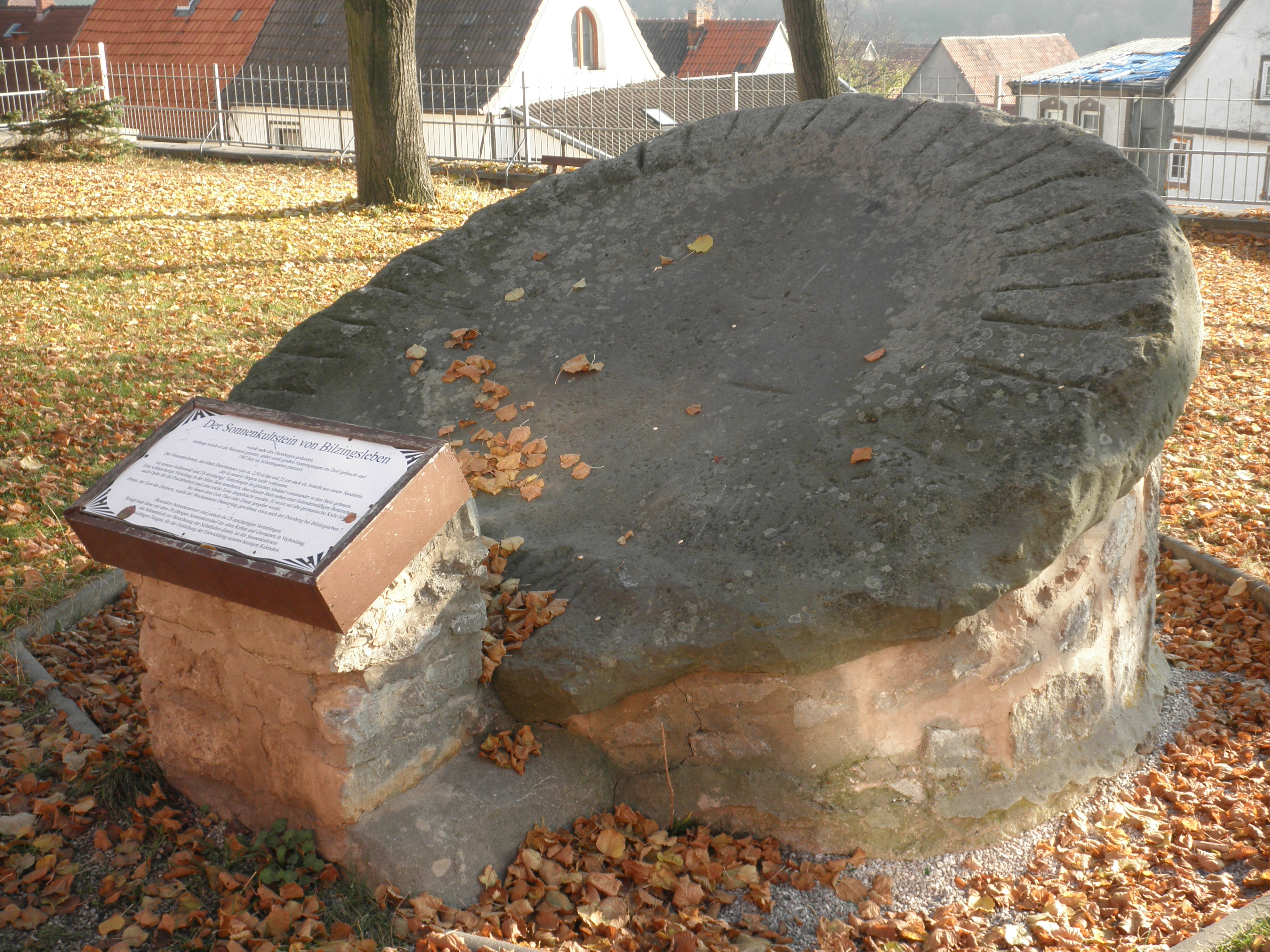 Stone Monument in Bilzingsleben in Thuringia